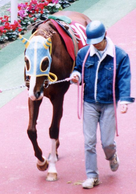 Mayano Top Gun